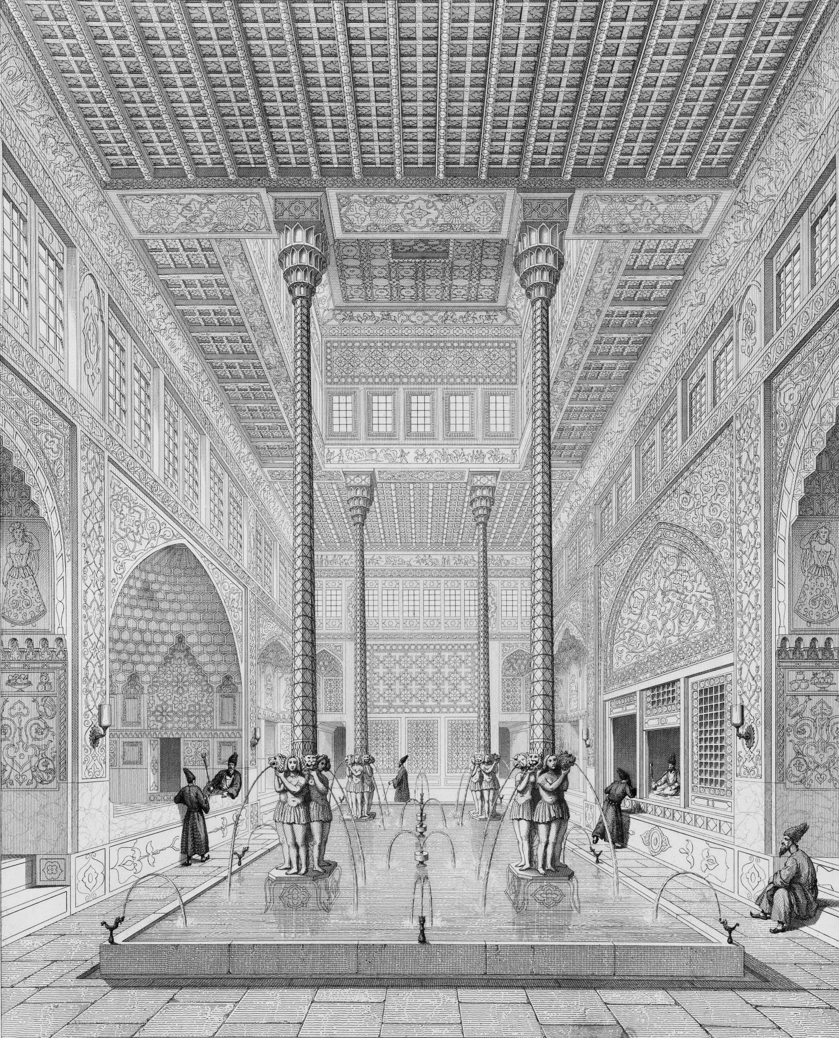 Inside the palace Char Bagh (Chehel Sotoun area)